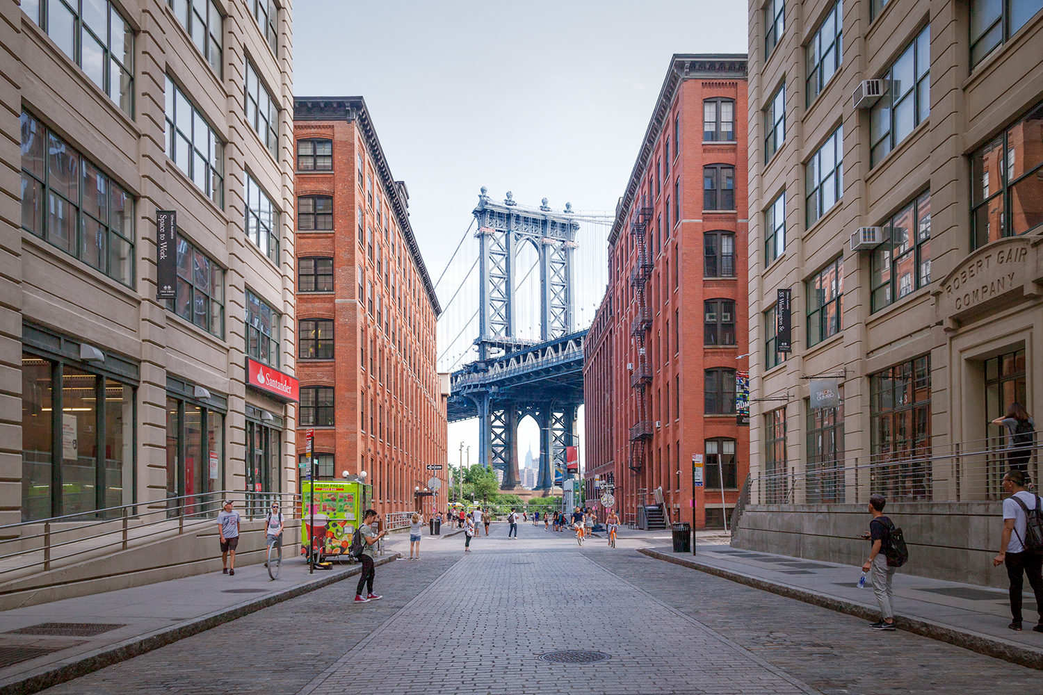 View of the Manhattan Bridge from Washington Street in Brooklyn (Photo gallery of DUMBO, Brooklyn)